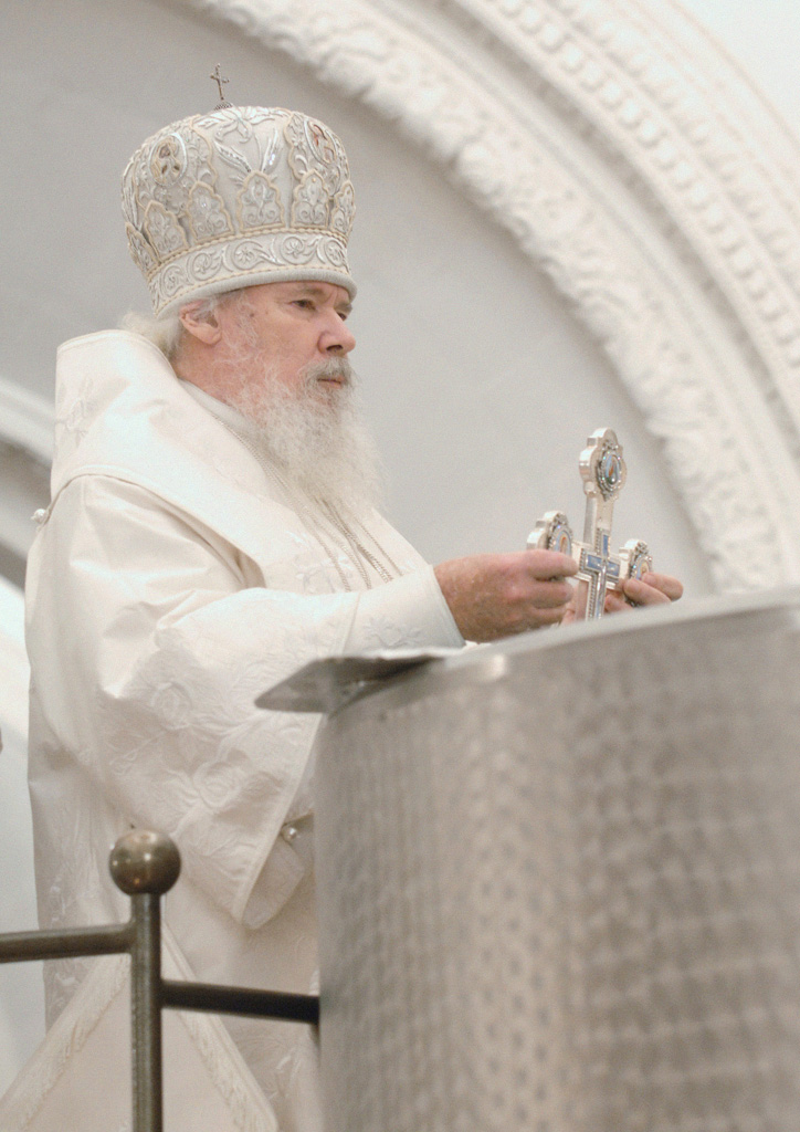 “Consecrating water at the Cathedral of Christ the Savior”. Patriarch Alexius of Moscow and All Russia performs divine liturgy and water-consecration ceremony at the Cathedral of Christ the Savior.